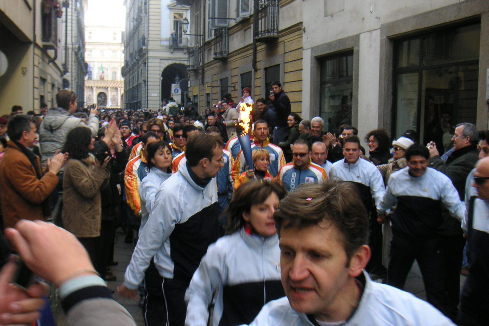 The 2006 Winter Olympics torch transported by Luciana Littizzetto, via Palazzo di città, Turin, february 10, 2006. Author: Betto